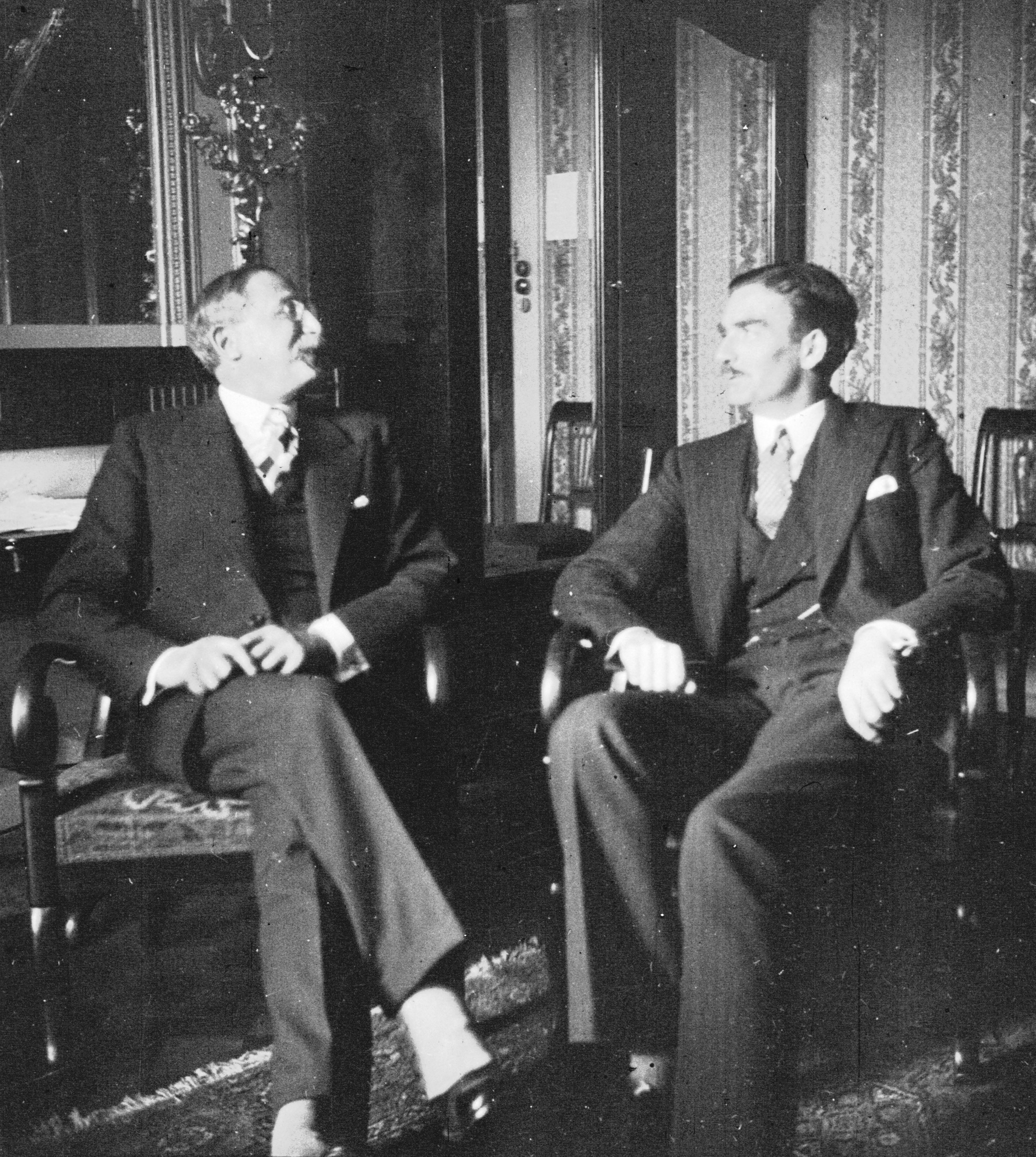 Léon Blum (1872-1950) and Anthony Eden (1897-1977) in Geneva in 1936.